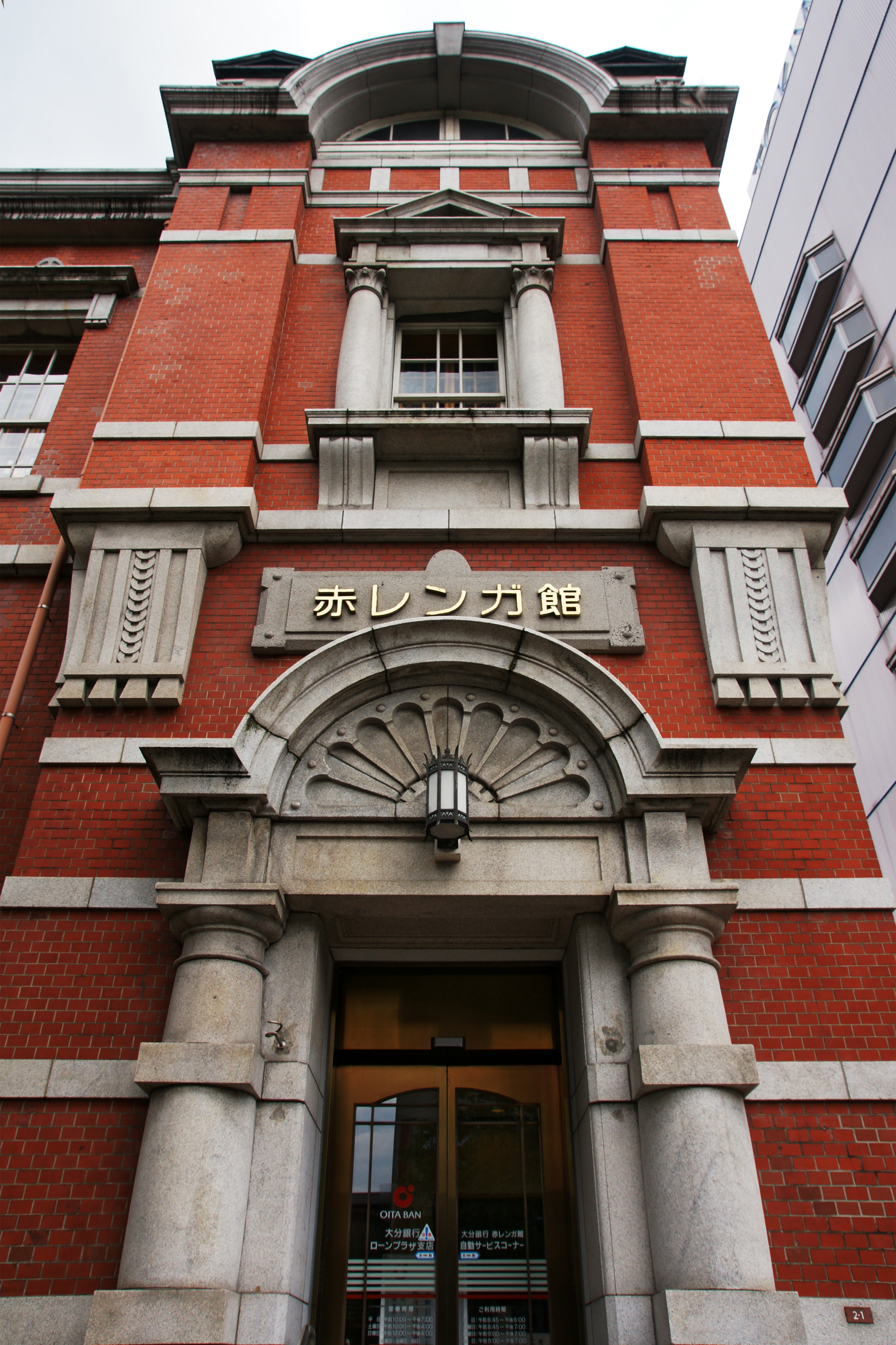 Building of Red Brick in Oita, Oita prefecture, Japan